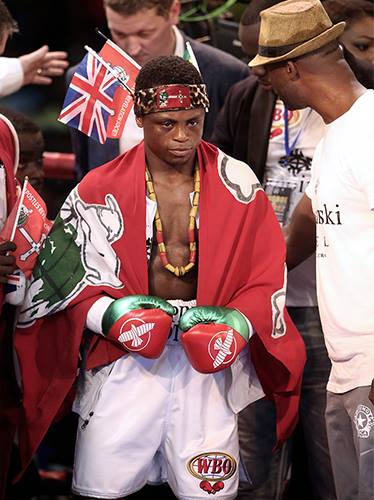 Isaac Dogboe Vs. Cesar Juarez in Accra (Ghana) on SATURDAY 06-JANUARY-2018.